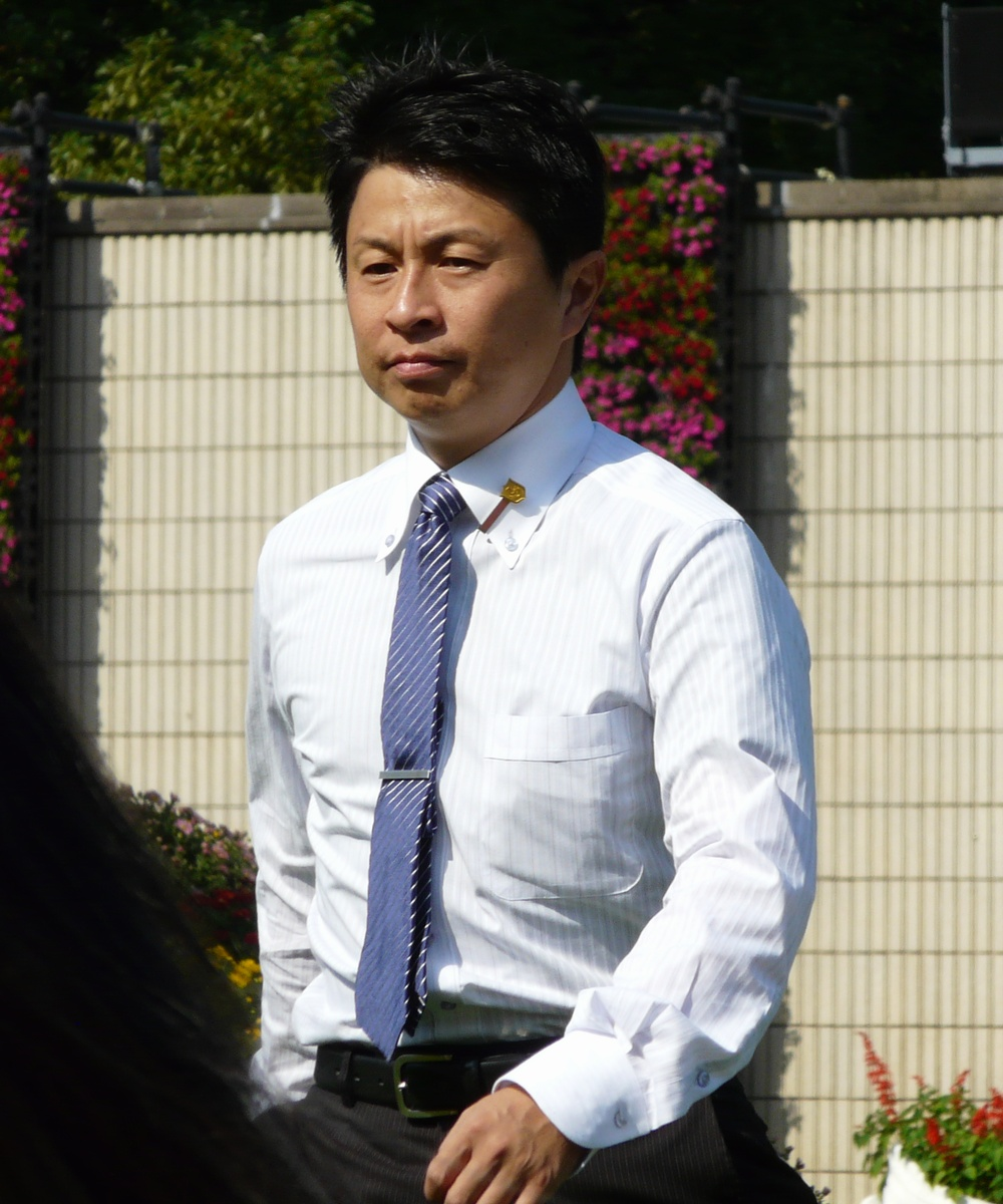 Masakazu-Hiyoshi20111016